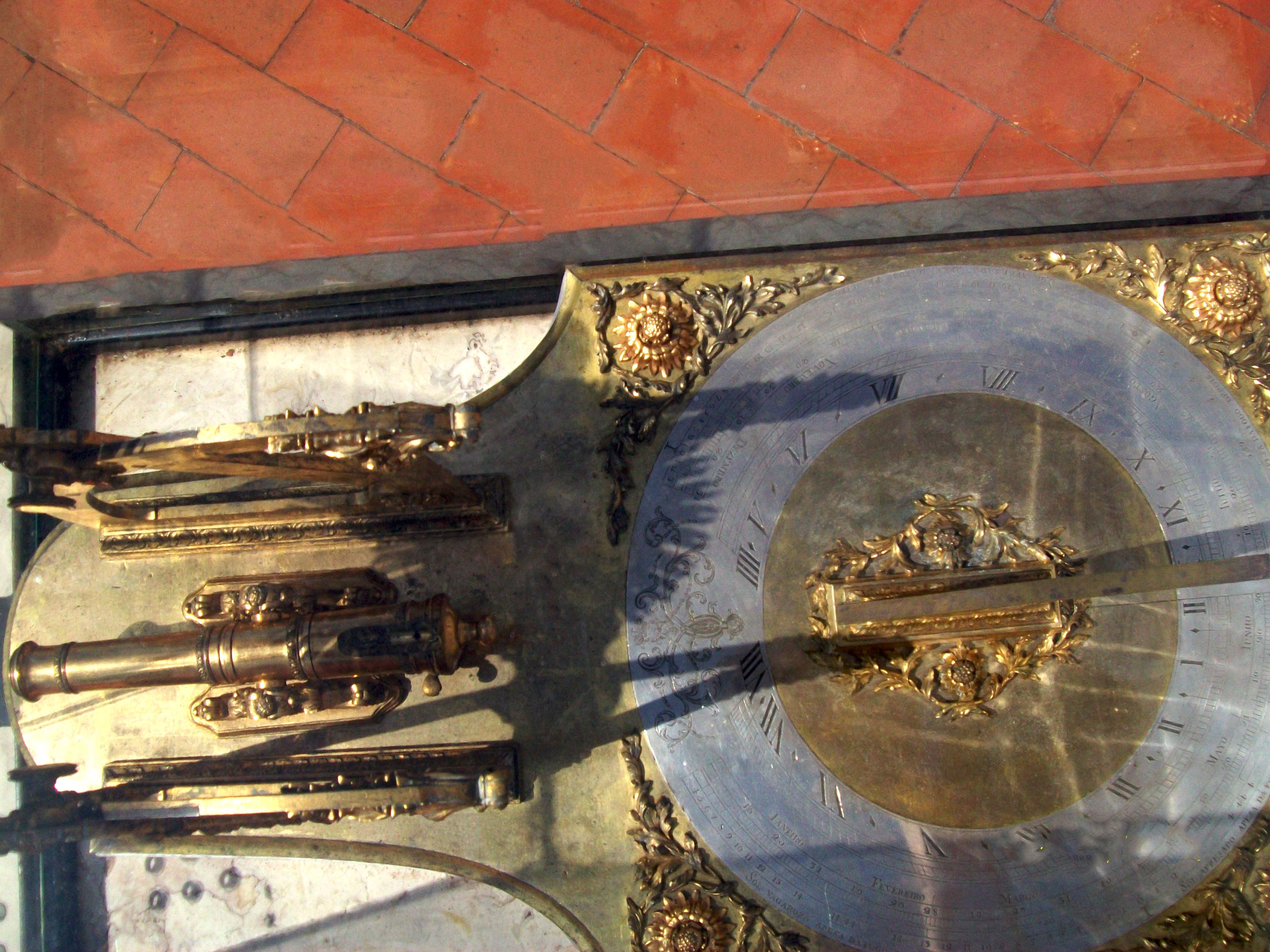 This is what’s called a sundial cannon, or a noon cannon , assuming the weather cooperates, at noon exactly the lens on the sundial focuses sunlight onto a pan filled with gunpowder, setting off the cannon to mark the time , generally, the cannons weren’t loaded with shot, but with all of the novelty alarm clocks out there, it seems like one that automatically shoots you could be really, really effective, in a potentially dangerous sort of way , at the Queen`s Terrace at the Palácio da Pena palace, Portugal